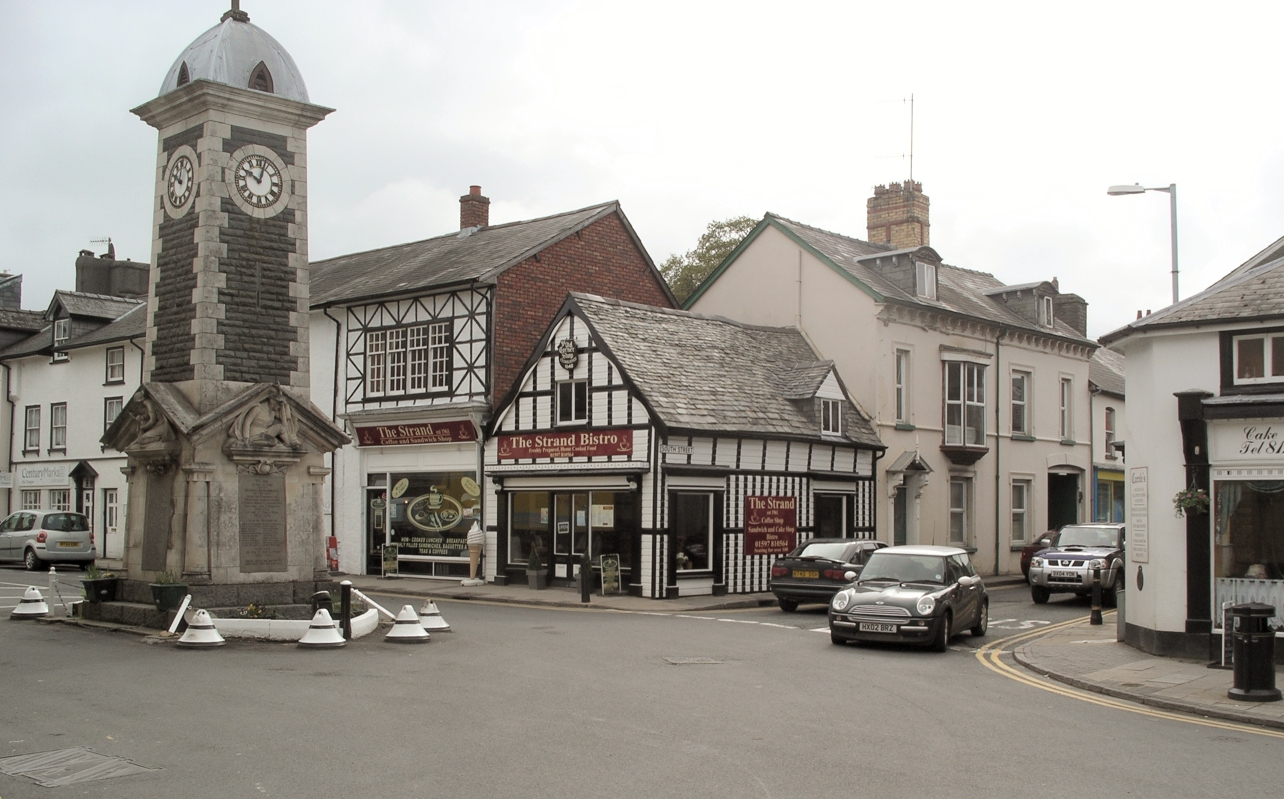 The A470 road passing through Rhayader town